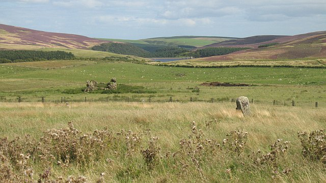 Chapel Stone Standing stone amongst thistles with the ruins of Grange beyond.